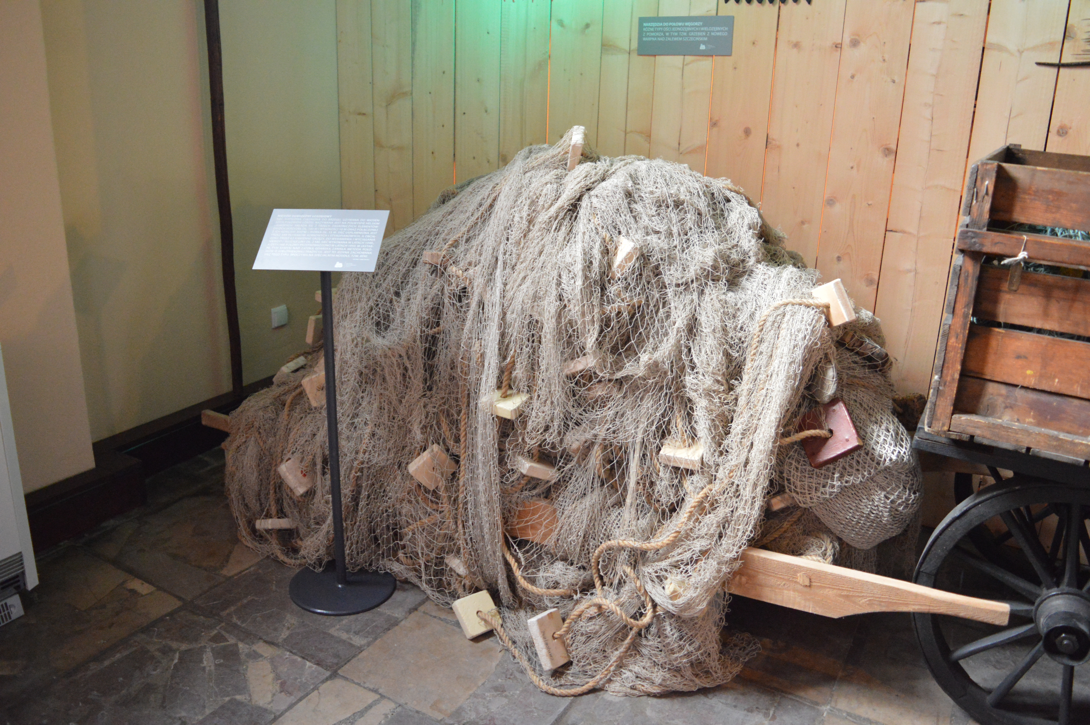 Sein (or dragnet) - fishing net. This one have two arms, 140 meters long and bag 15 meters long. Exhibit in Museum of Fishery in Hel, Poland.